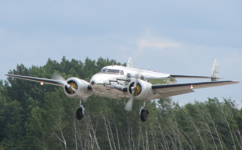 1936 Lockheed 12A